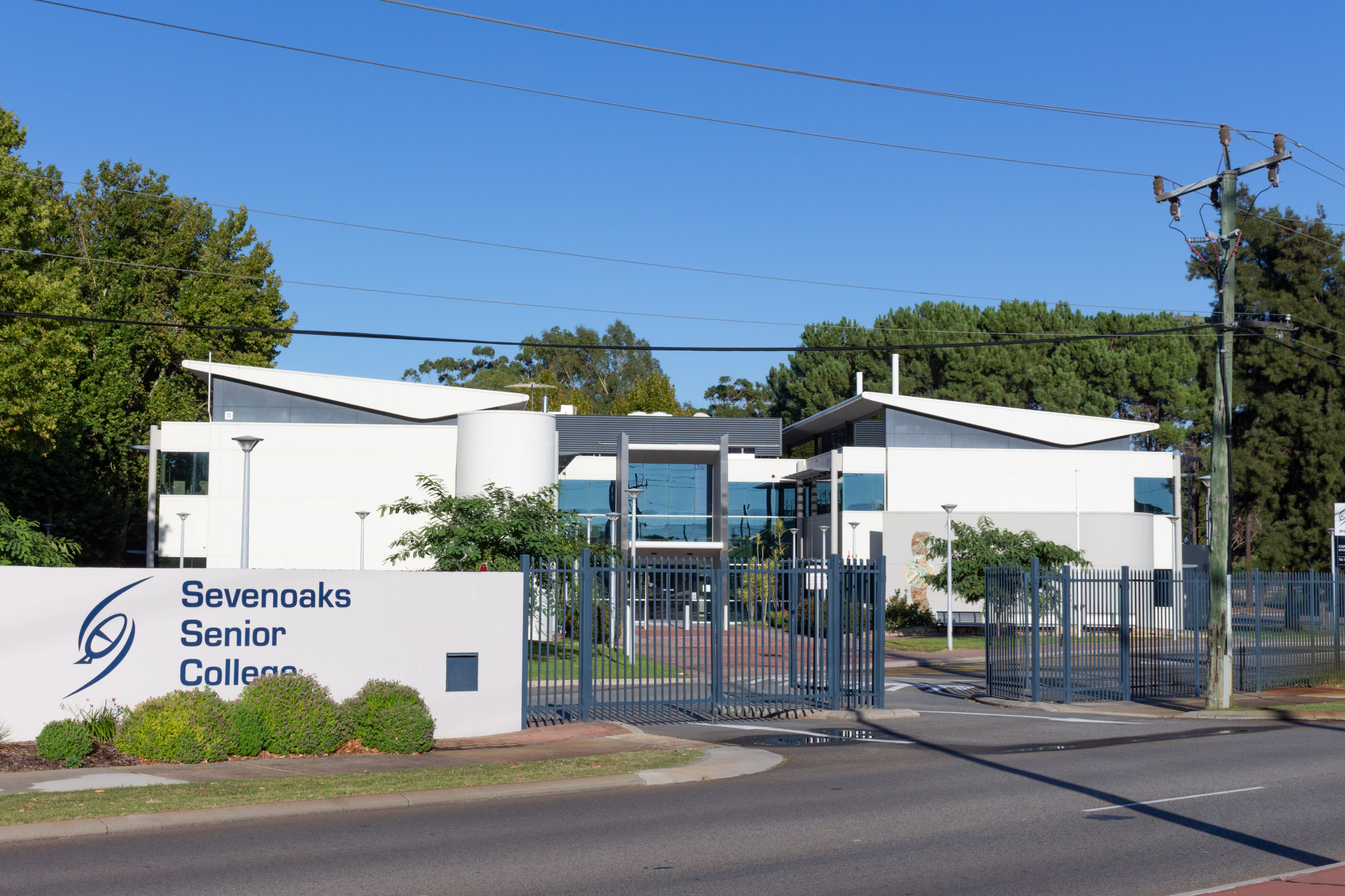 Main entrance of Sevenoaks Senior College on Sevenoaks Street in Cannington.